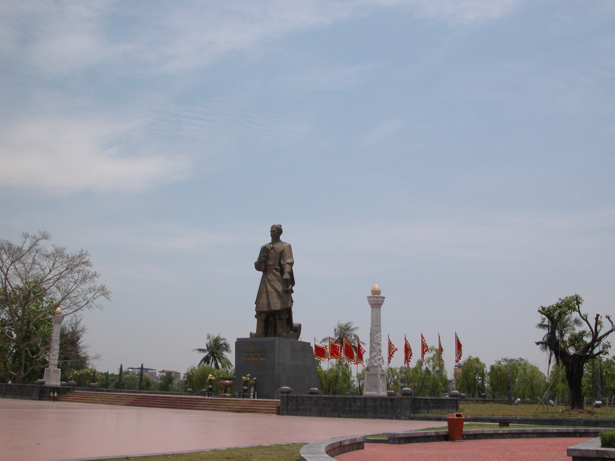 Statue of Tran Hung Dao in his hometown of Nam Dinh, Vietnam